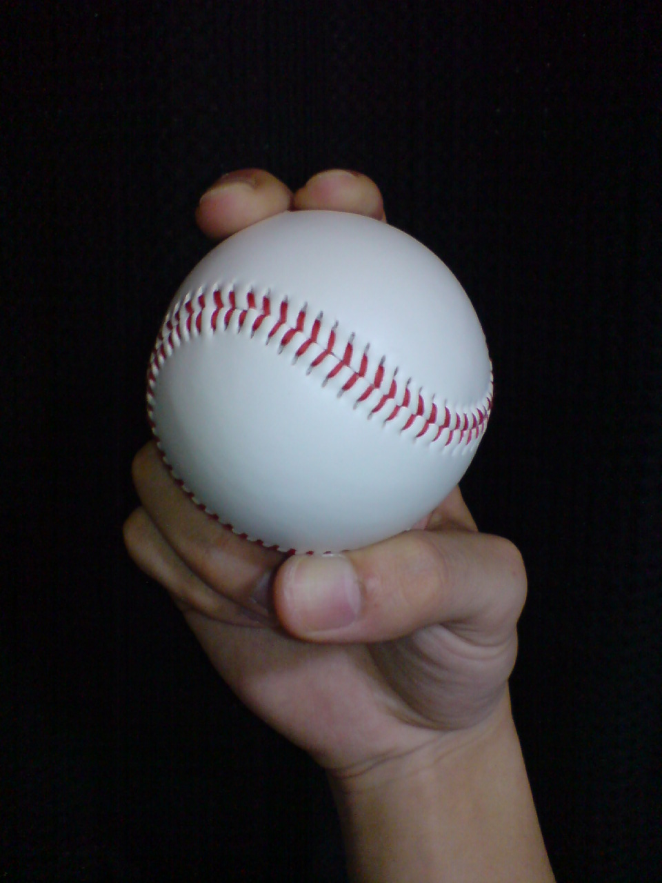 Slider